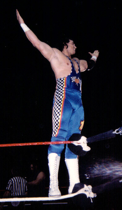 Bob Holly at a WWF event in 1996